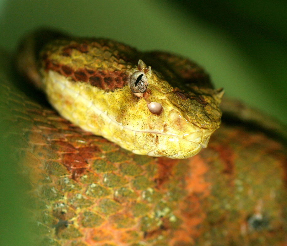 Yellow eyelash viper (Bothriechis schlegelii)